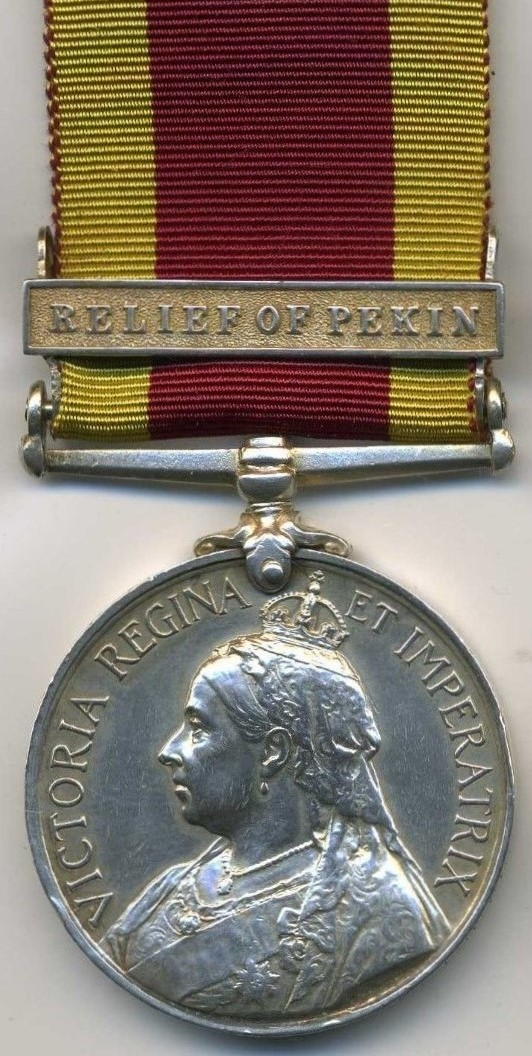 Third China War Medal 1900 obverse, showing design of suspension bar and clasp